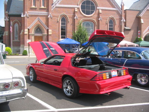 This image was copied from en. The original description was